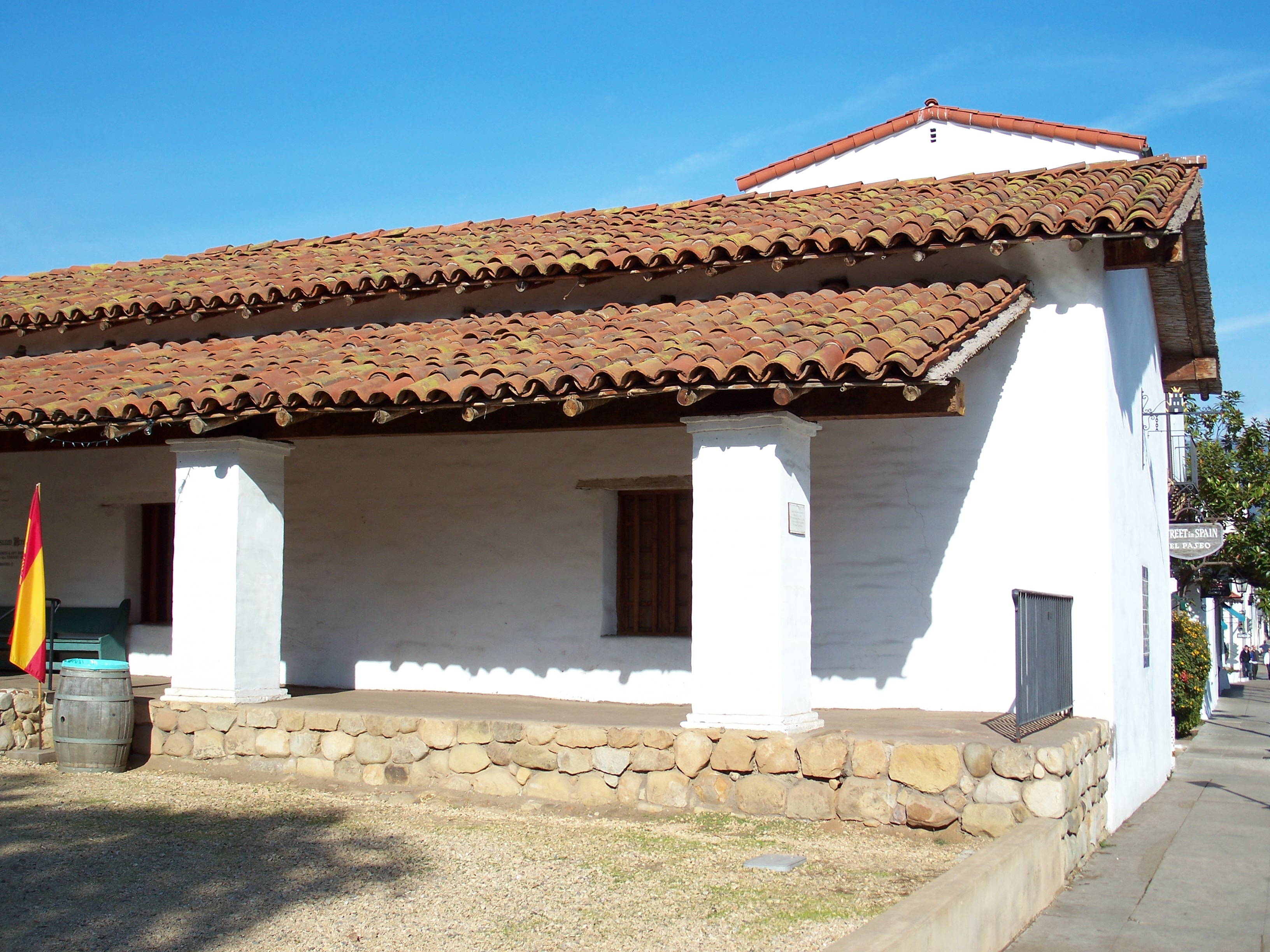 Casa De la Guerra. 11 - 19 East De la Guerra Street. Santa Barbara, California, USA